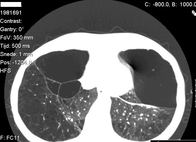 Computed tomography of the lung with thin slices (1 mm) showing emphysema and bullae in the lower lung lobes of a subject with type ZZ alpha-1-antitrypsin deficiency. There is also increased lung density in areas with compression of lung tissue by the bullae.